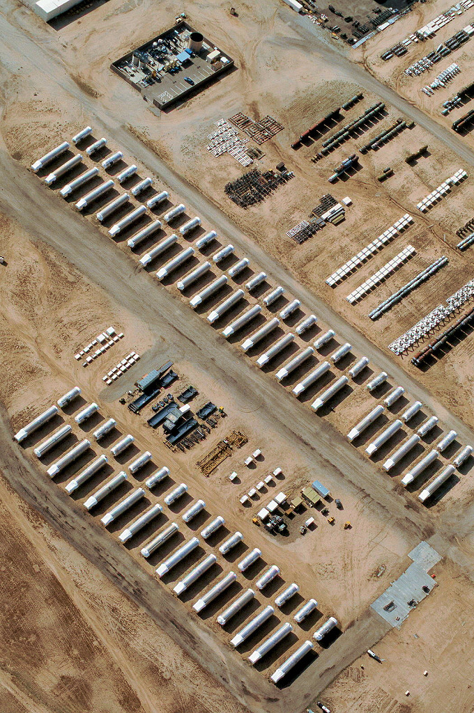 United States Air Force AMARC photo taken at Davis-Monthan AFB 2006